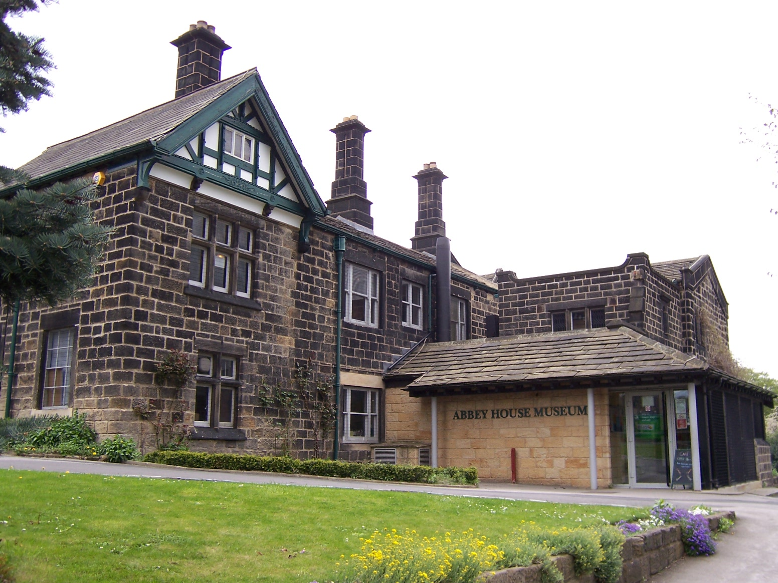 Kirkstall Abbey House Museum in Leeds, Yorkshire (England) own work; photo taken on 30 April 2006